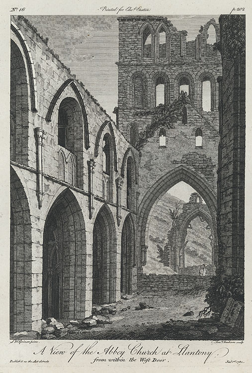 Interior view of Llantony Abbey.